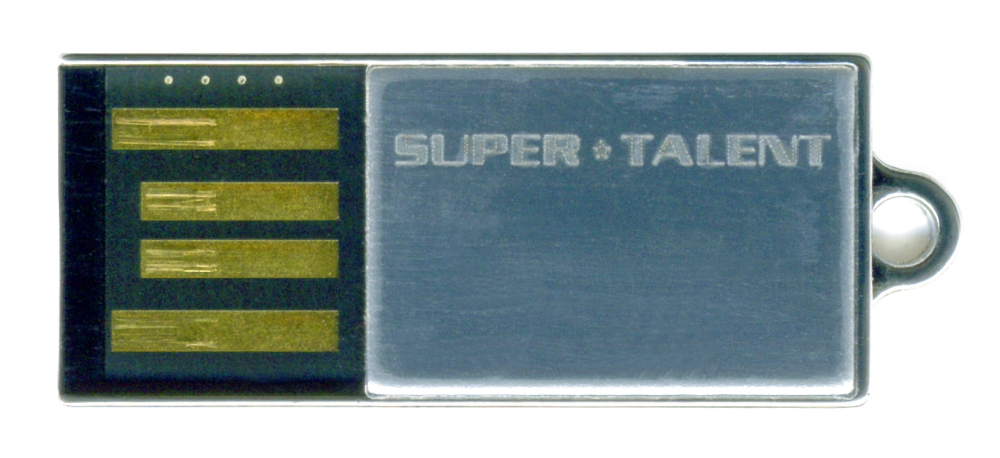 USB Flash Drive Super Talent Pico-C 8 GB. Length: 31,3 mm Weight: 6 g.